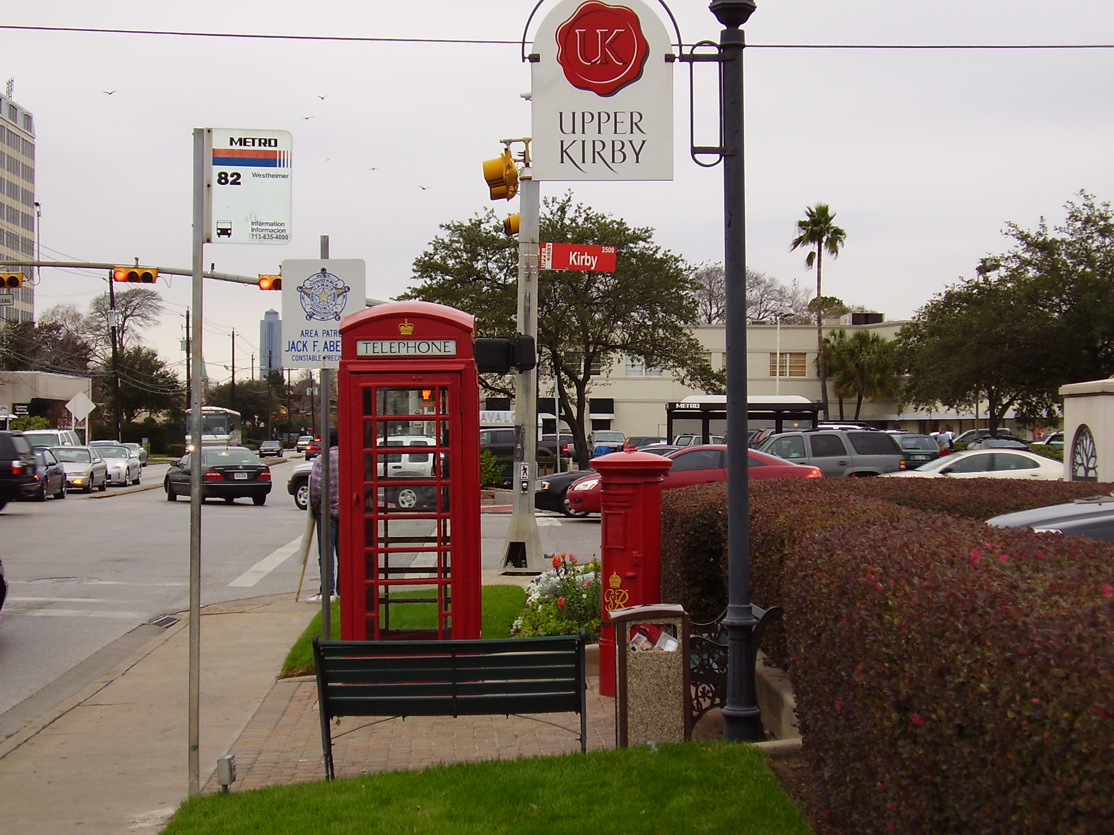 Upper Kirby streets